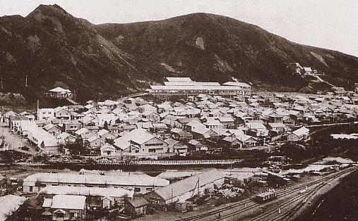 View of Noda (Chekhov Чехов) in Karafuto